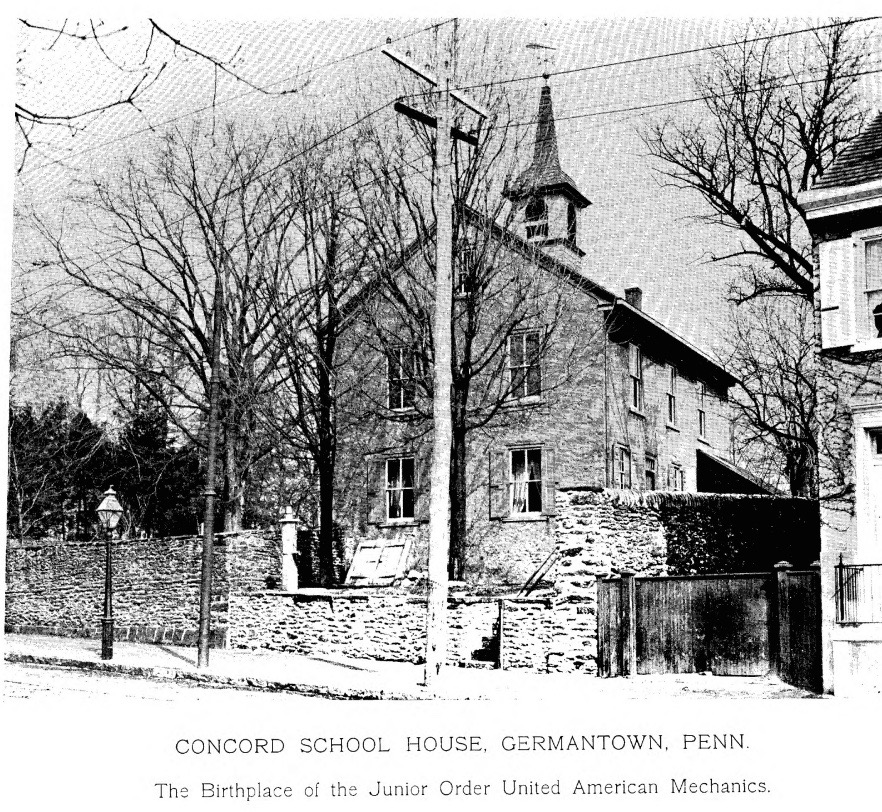 Concord Schoolhouse on Germantown Avenue in Germantown, Philadelphia, Pennsylvania